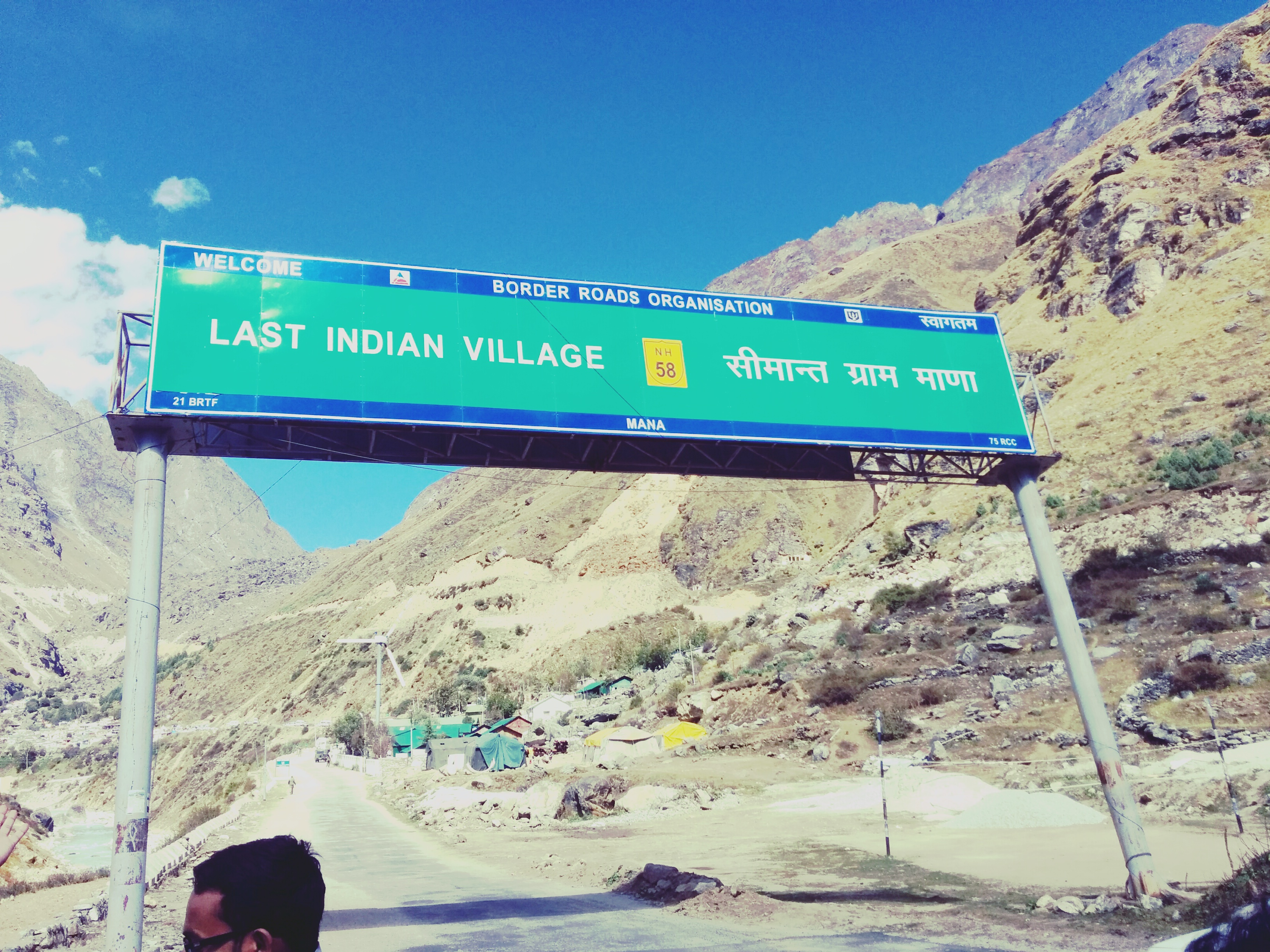 This image describe the beauty of mana village, which is surrounded by mountains.